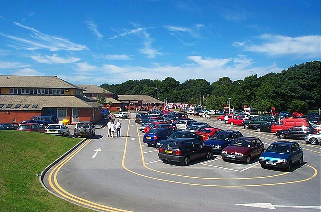 Community Hospital, Ilkeston. Opened by Diana, HRH Princess Of Wales on 10th December 1987.